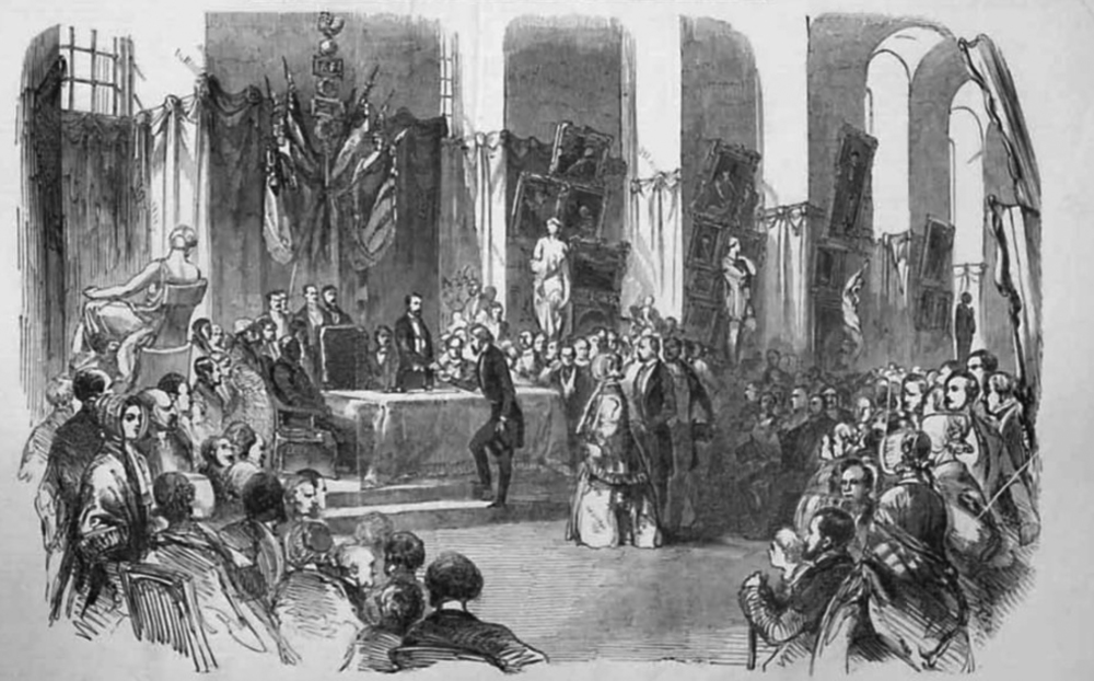 President Bonapate Distributes Prizes at the Close of the 1849 Paris Industry Exposition